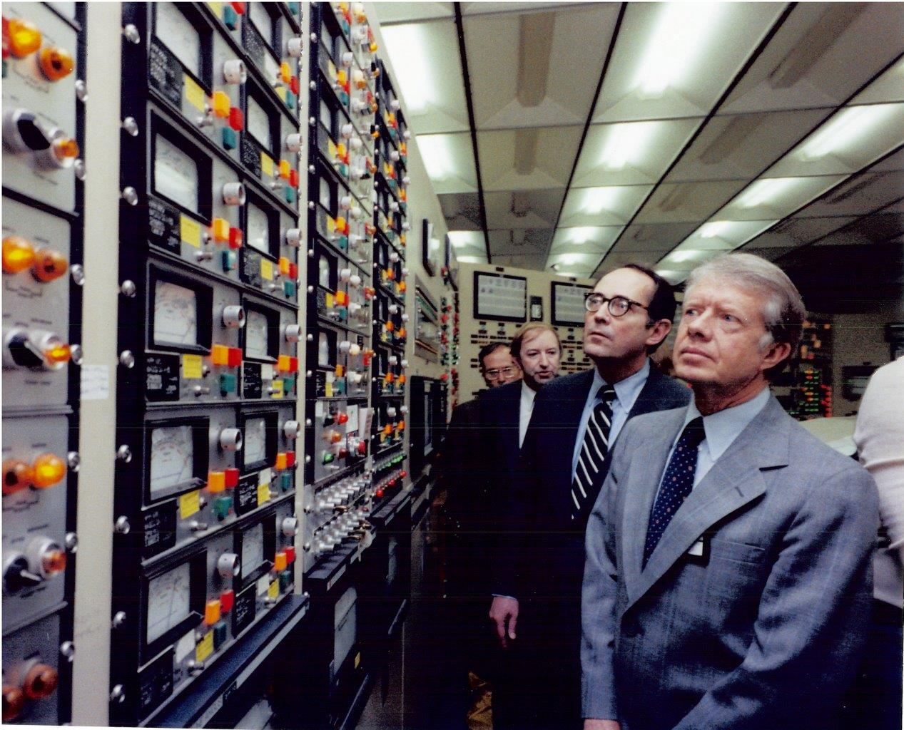 President Carter in the TMI-2 Control Room (with Thornburgh, Denton)